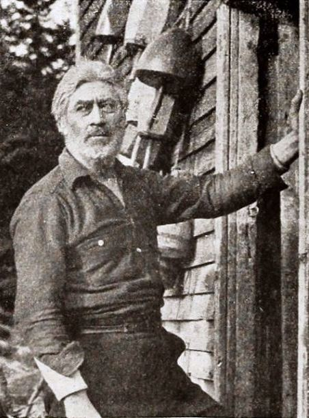 Still from the American romantic drama film The Love Nest (1922) with Richard Travers, Jean Scott, and Bernard Siegel, on page 656 of the February 24, 1923 Exhibitor's Trade Review. Note: there is also a 1922 German film with an English title The Love Nest as well as a 1923 comedy short film of the same name; the 1922 film is the one directed by Wray Bartlett Physioc.